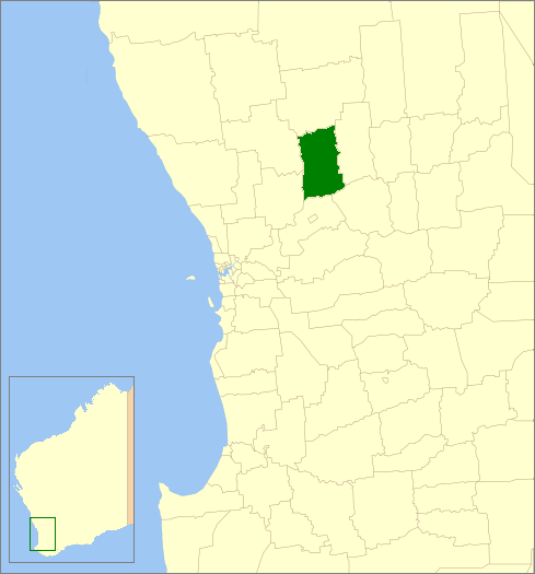 Description=Location of the Local Government Area in Western Australia